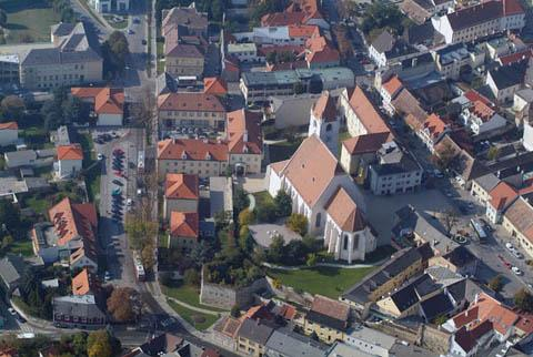 Eisenstadt, Austria, aerial photography